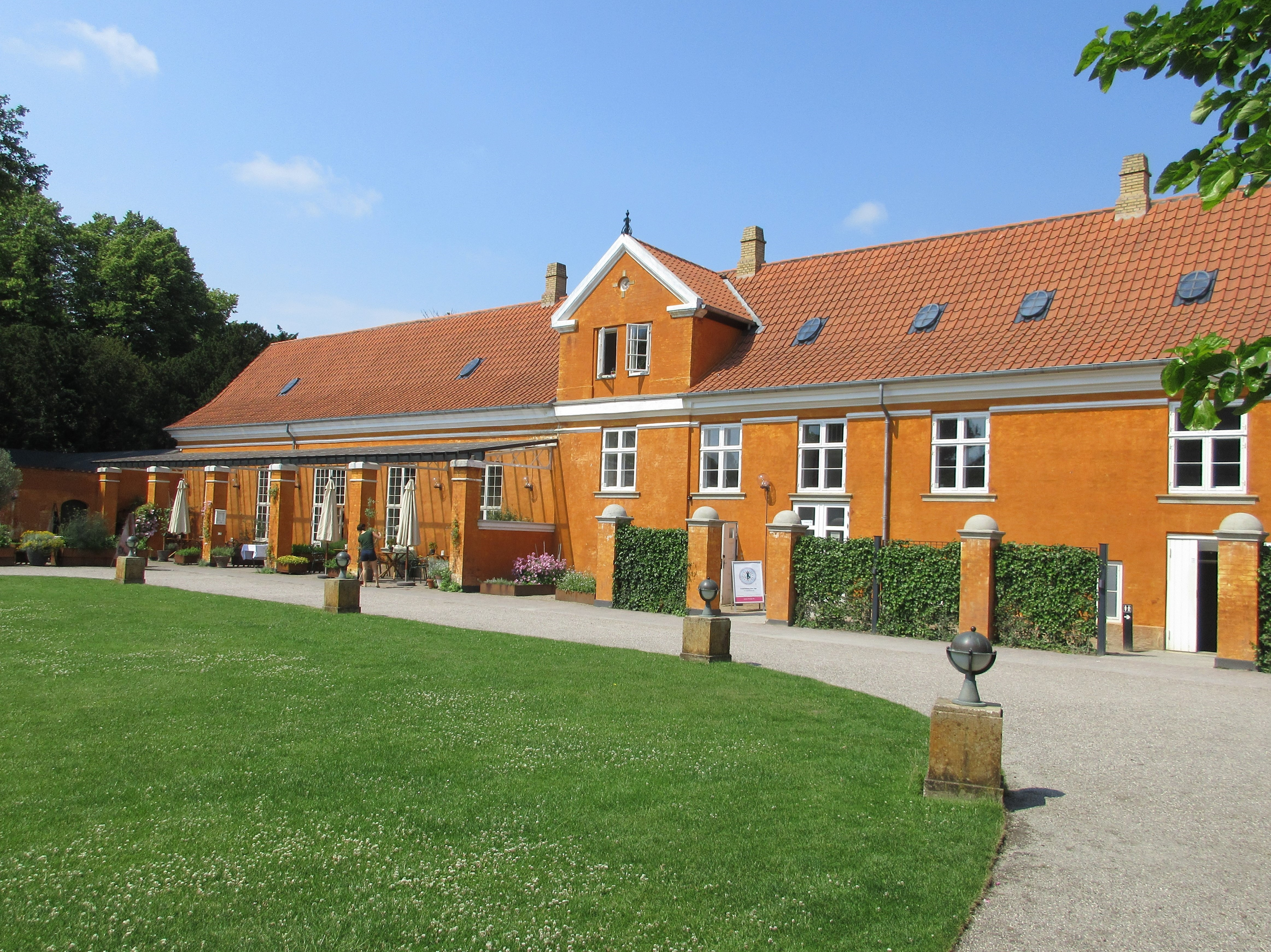 Milke & Hurtigkarl in Haveselskabets Have in Frederiksberg Copenahgen, Denmark